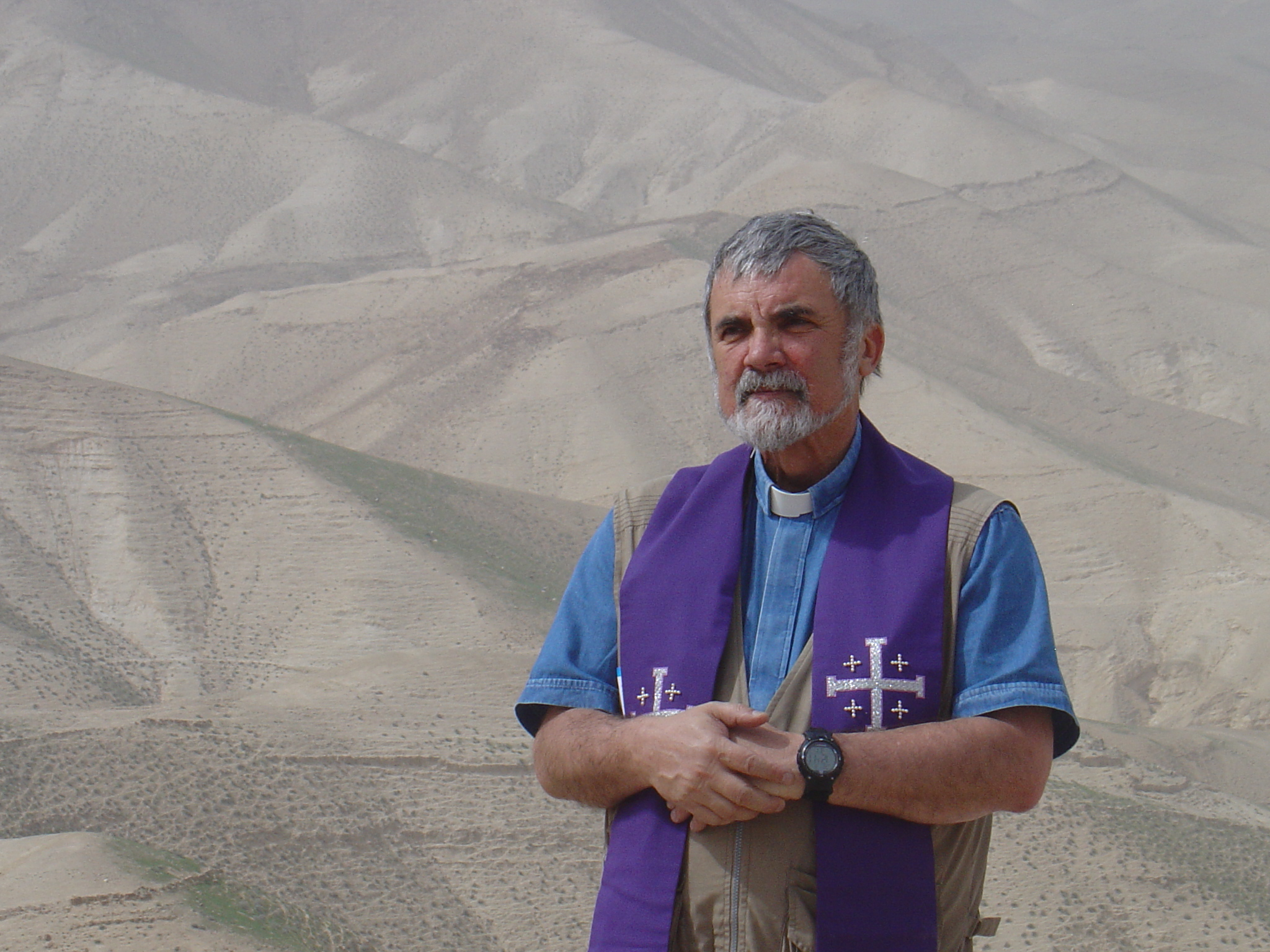 Milos Raban in Israel